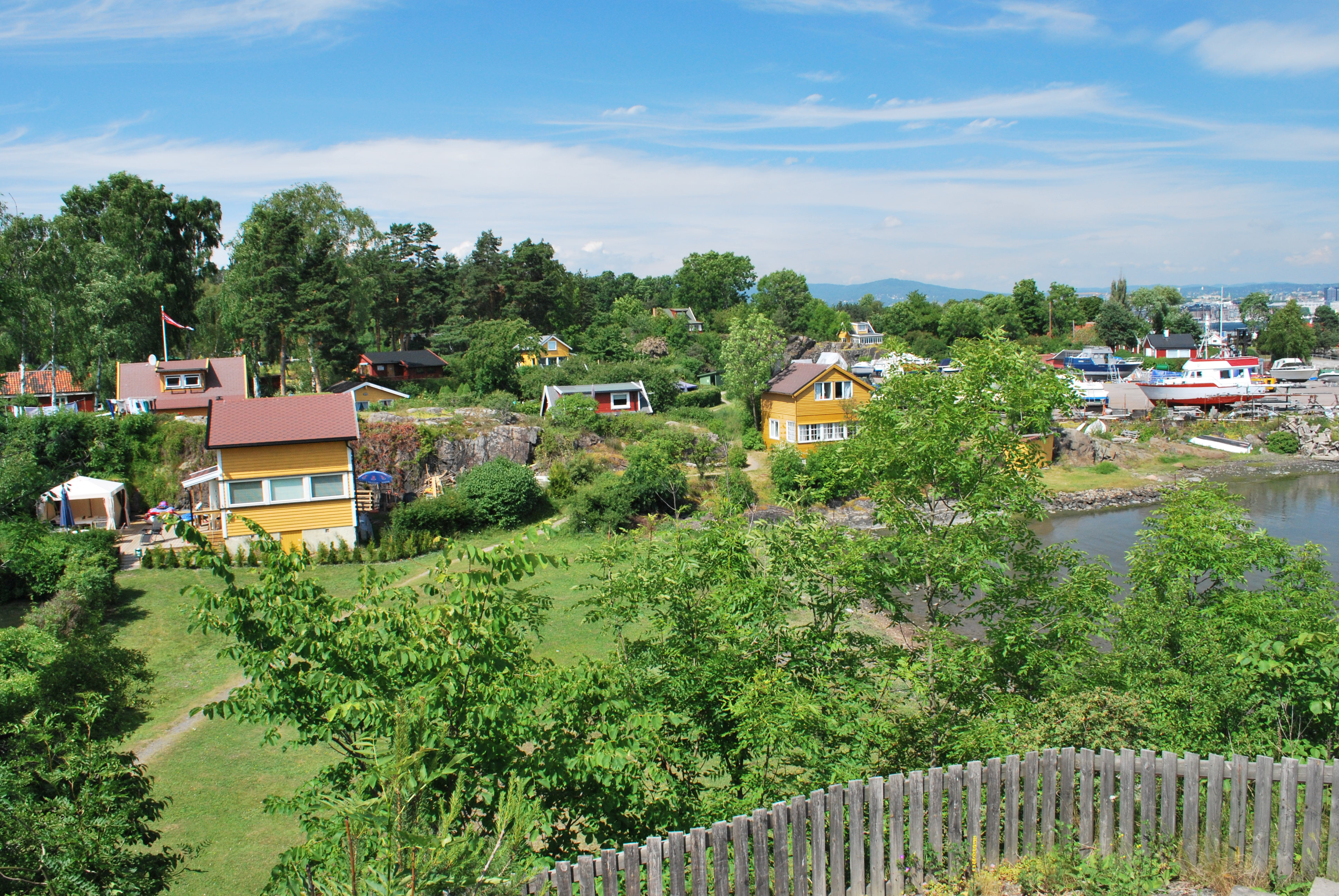 Cottages on Lindøya, Oslo